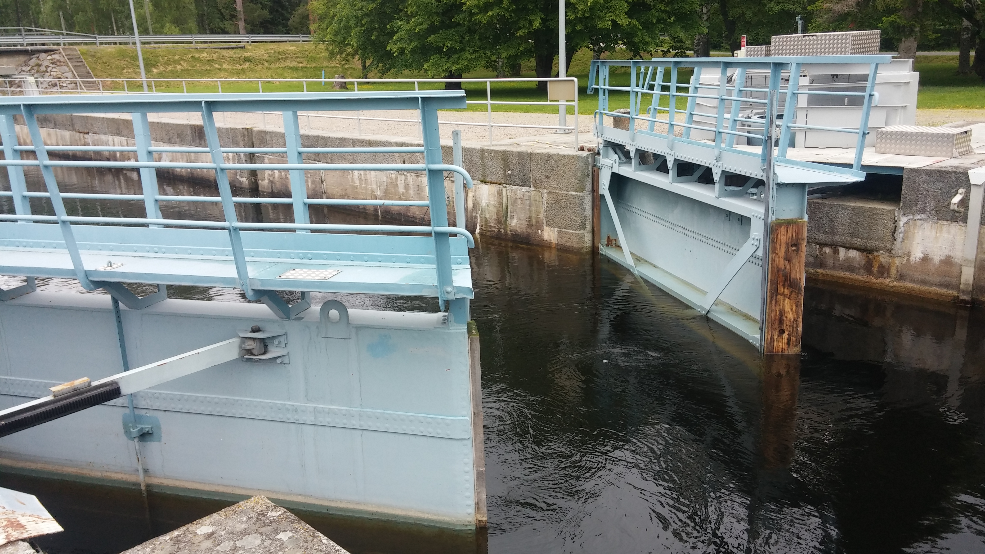 Neiturin kanava is a canal in Konnevesi, Finland.